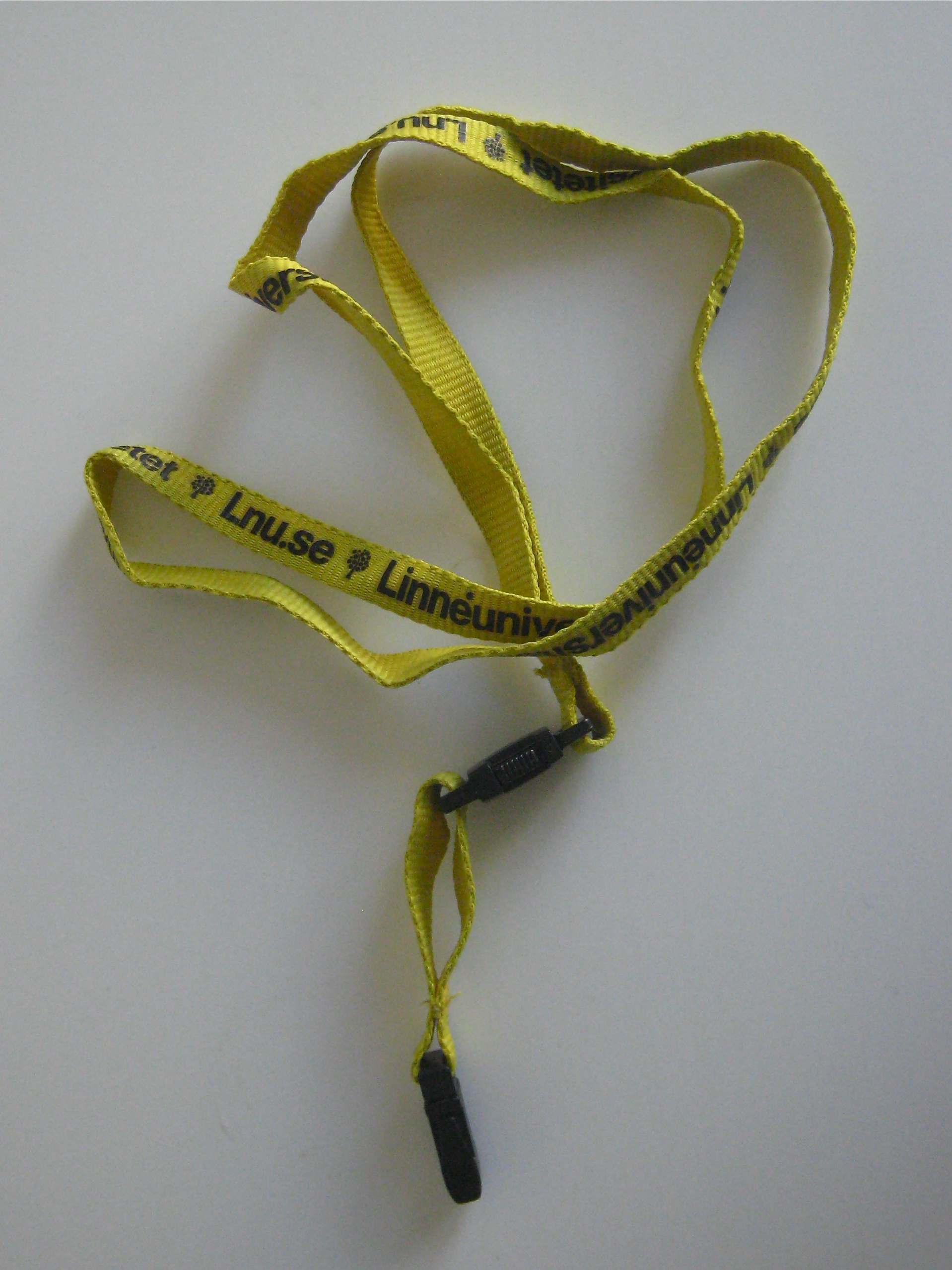 Nyckelband.